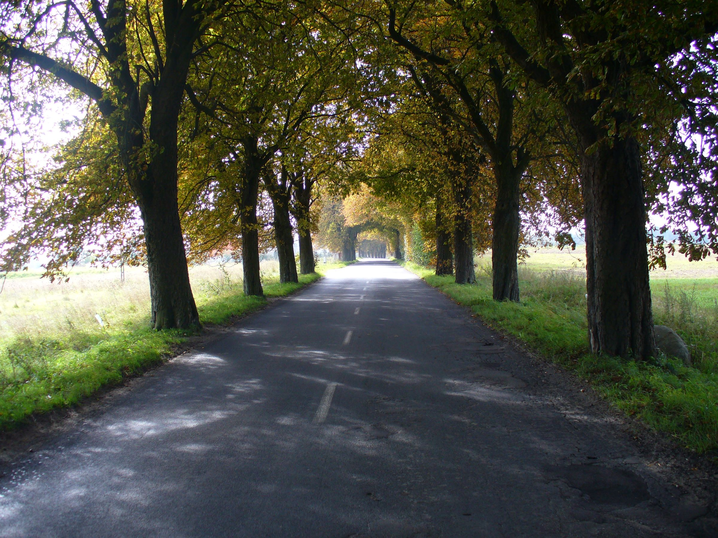 Poland, Nowy Dwór Wejherowski, Voivodeship road DW218